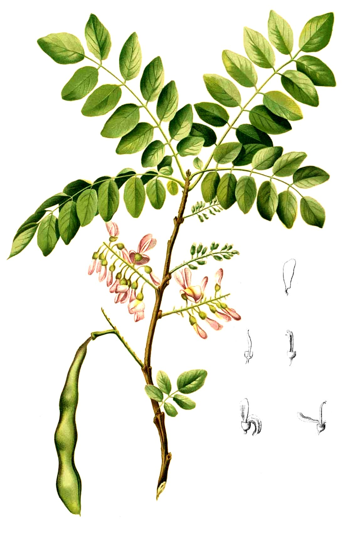 Plate from book